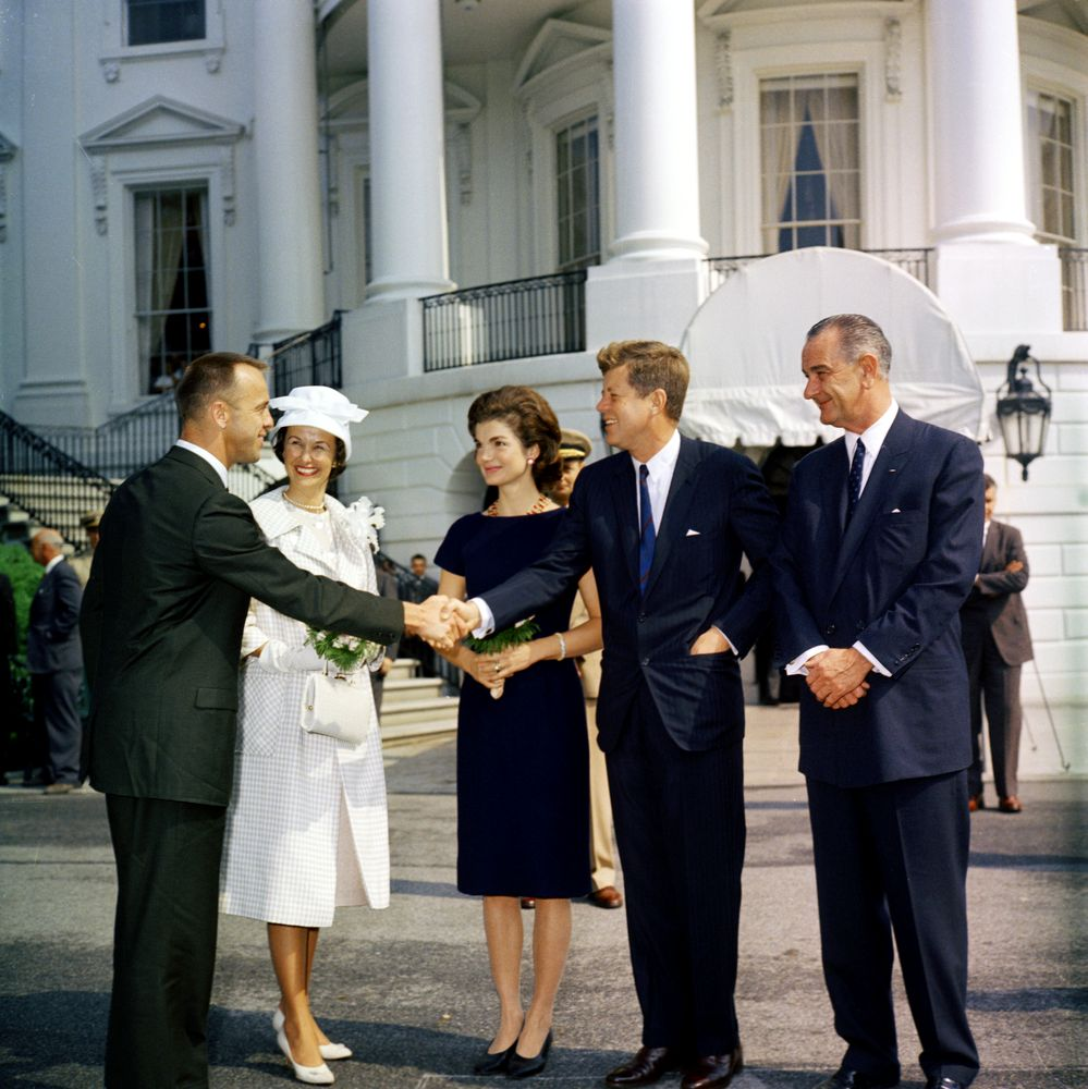 Astronaut Commander Alan B. Shepard, Jr., and his wife, Louise Brewer Shepard, arrive for presentation ceremony of the National Aeronautics and Space Administration (NASA) Distinguished Service Medal to Commander Shepard. L-R: Commander Shepard; Mrs. Shepard; First Lady Jacqueline Kennedy; Naval Aide to the President, Commander Tazewell Shepard (in back); President John F. Kennedy; Vice President Lyndon B. Johnson; White House Secret Service Agent, Gerald “Jerry” Behn (partially hidden). South Portico, White House, Washington, D.C.